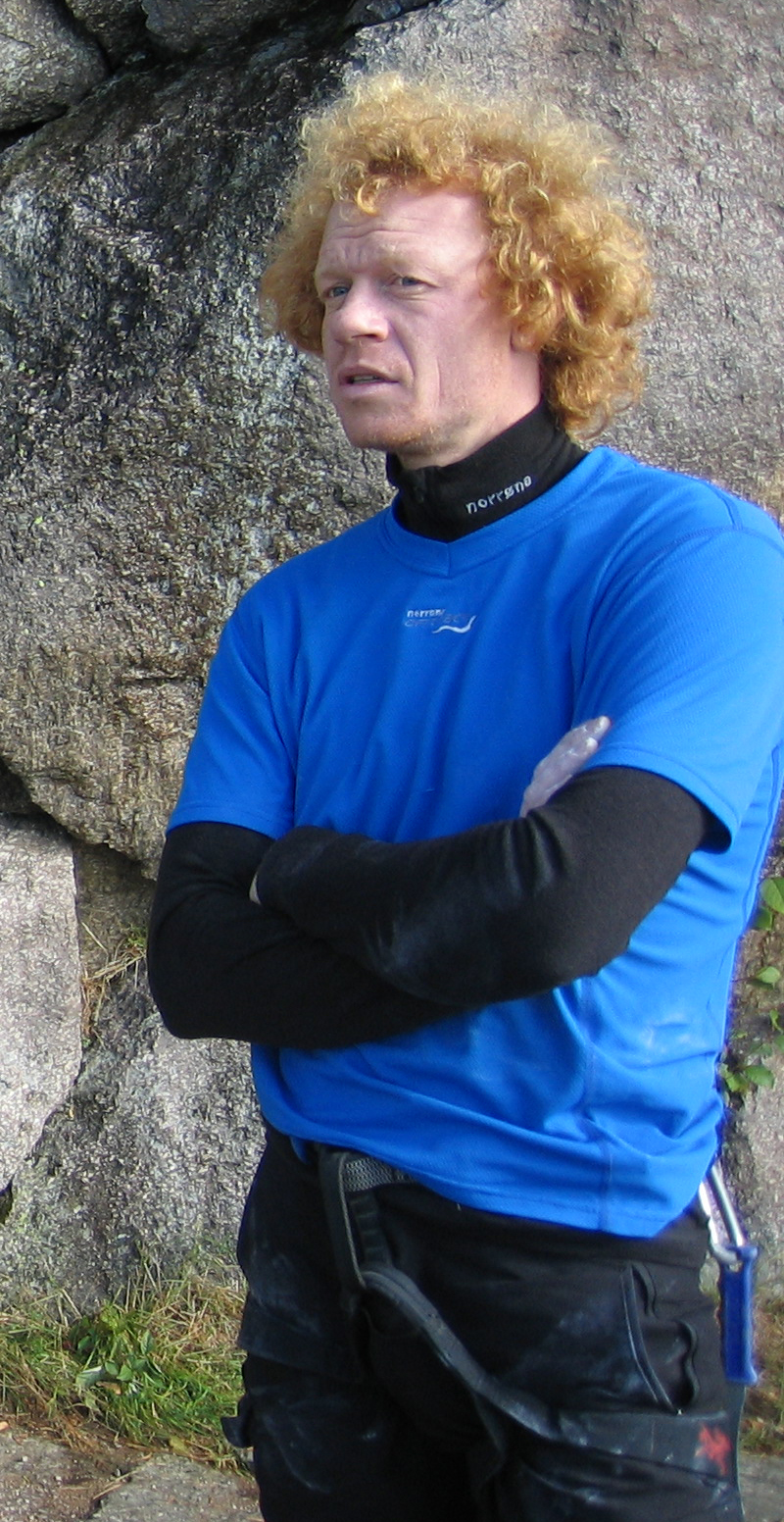 Robert Caspersen